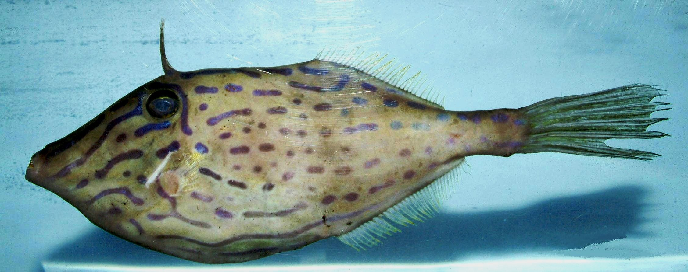 Scrawled filefish ( Aluterus scriptus ). Gulf of Mexico.